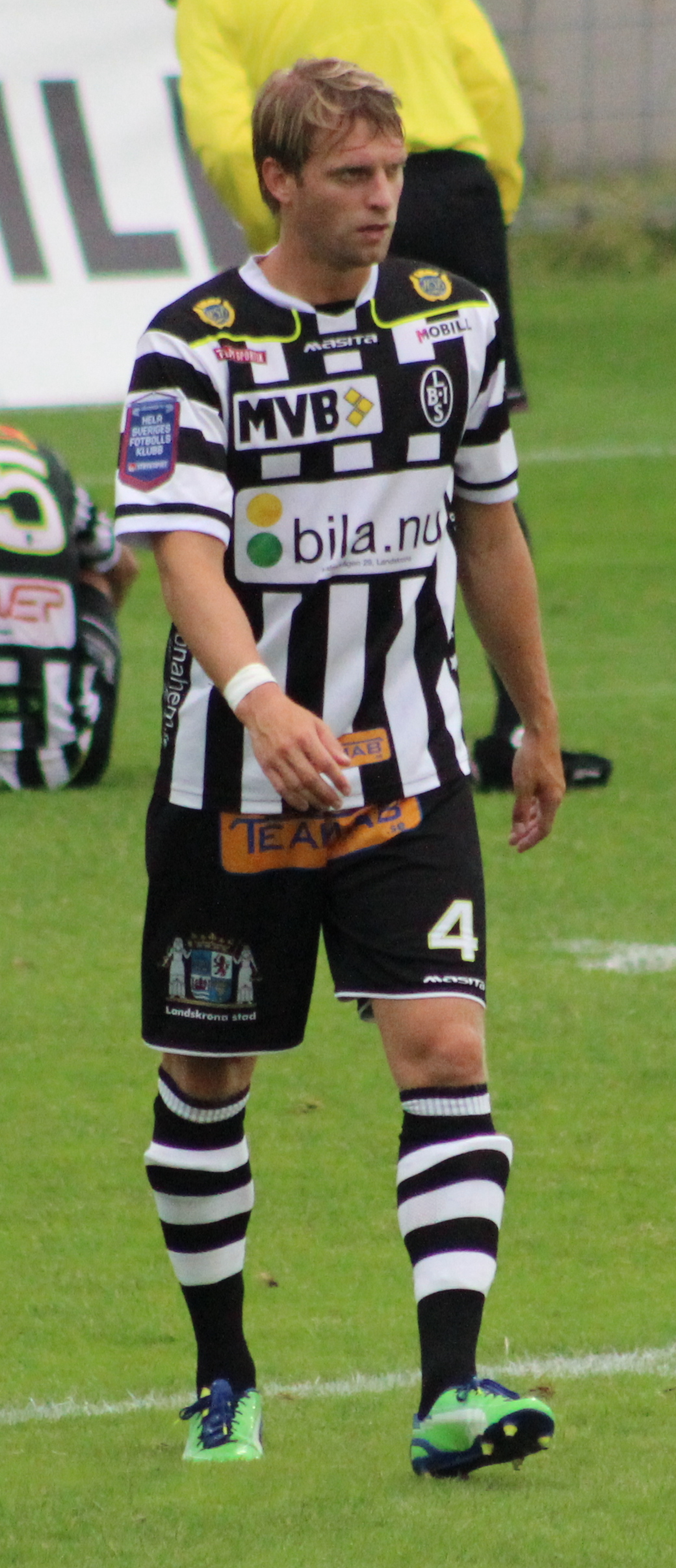 Martin Rudolfsson, Landskrona BoIS